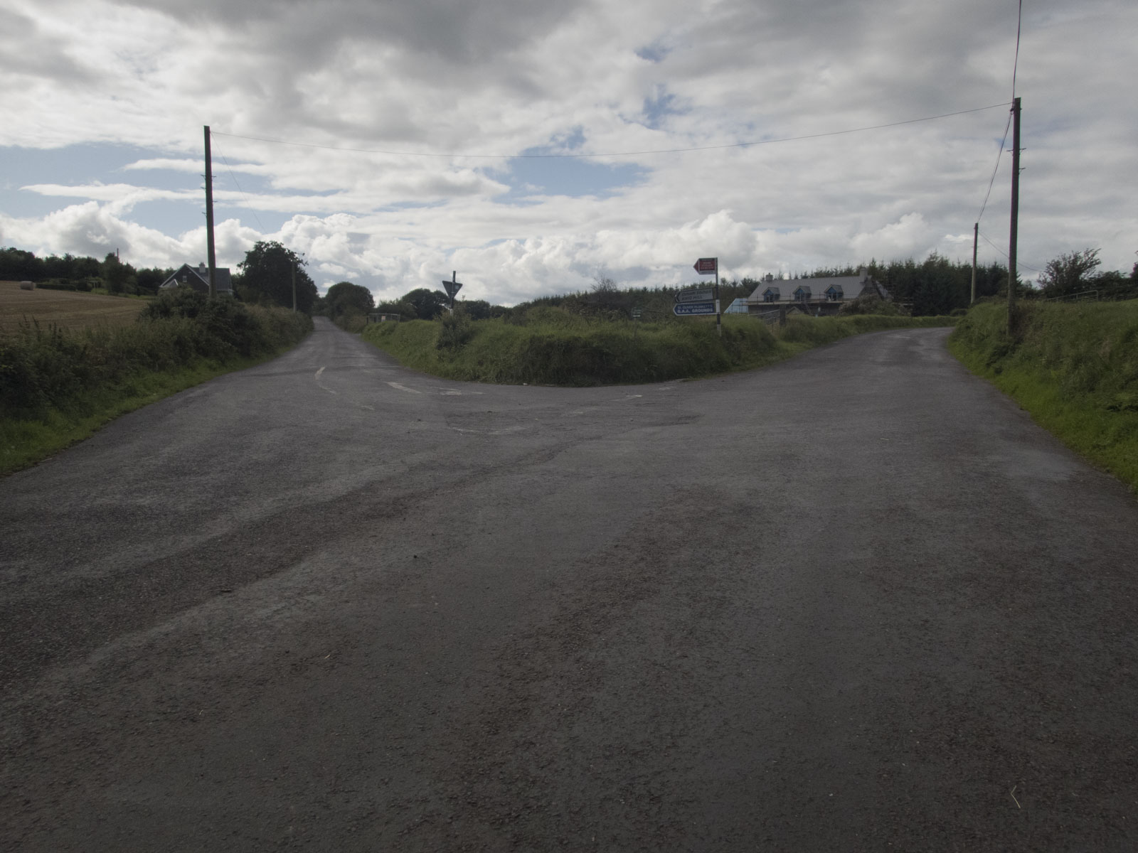 Road junction